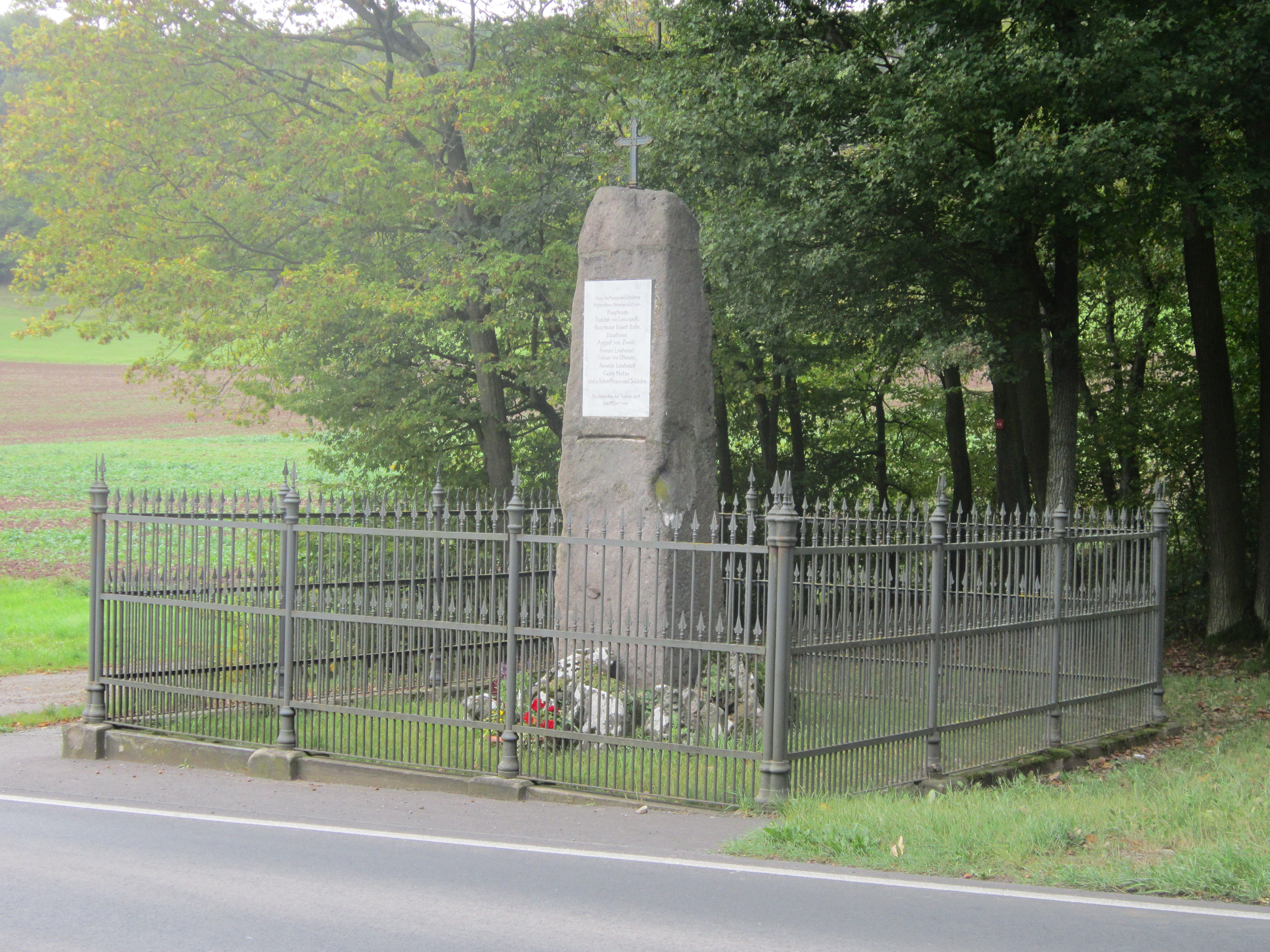 War memorial in Winkels, a quarter of the German spa town of Bad Kissingen in Lower Franconia (Bavaria), for the 2. Infantery regiment from Poznań in the Austrio-Prussian-War 1866.